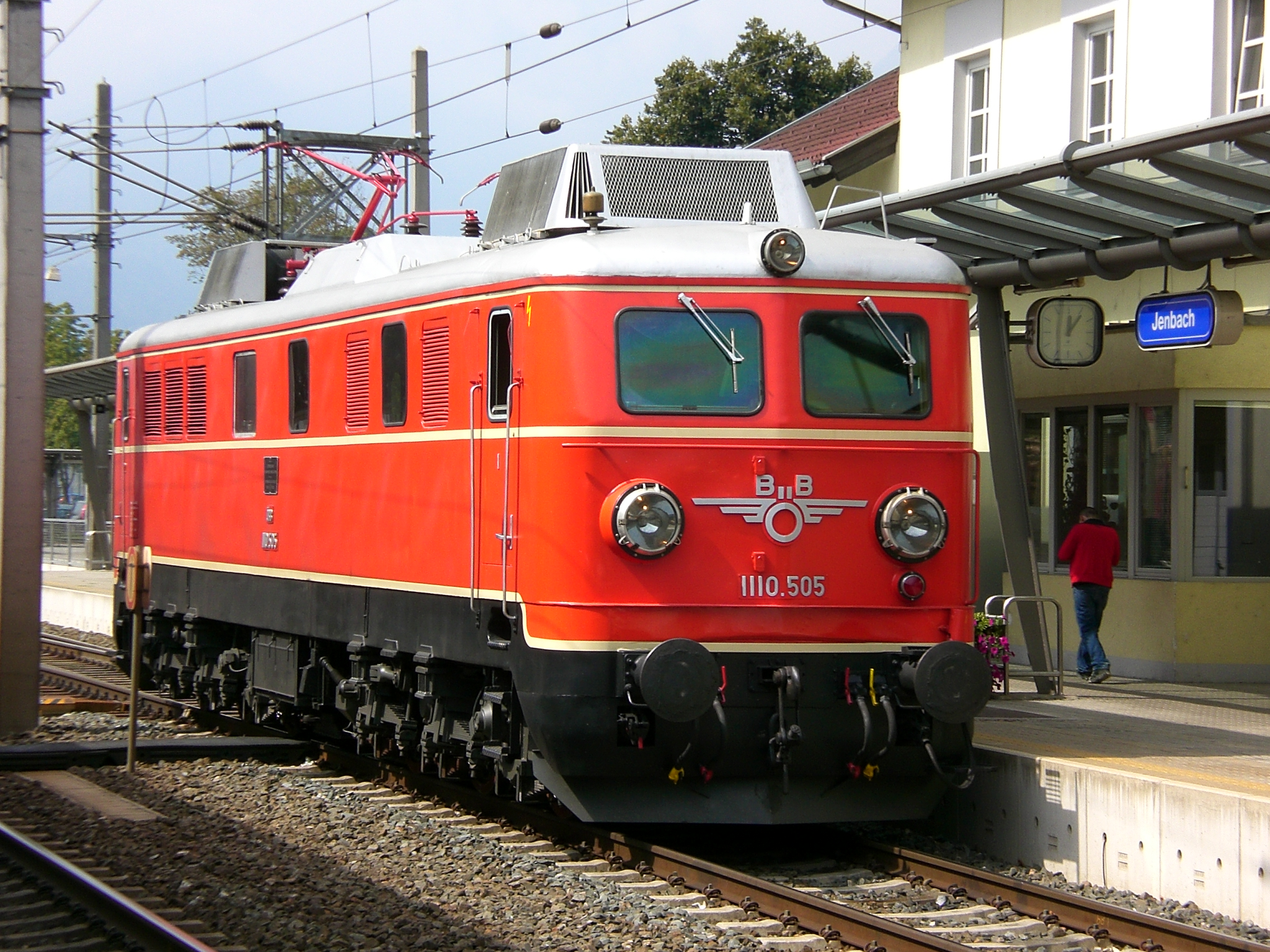 ÖBB 1110.505 shortly before connectig to a historic train in Jenbach, Austria